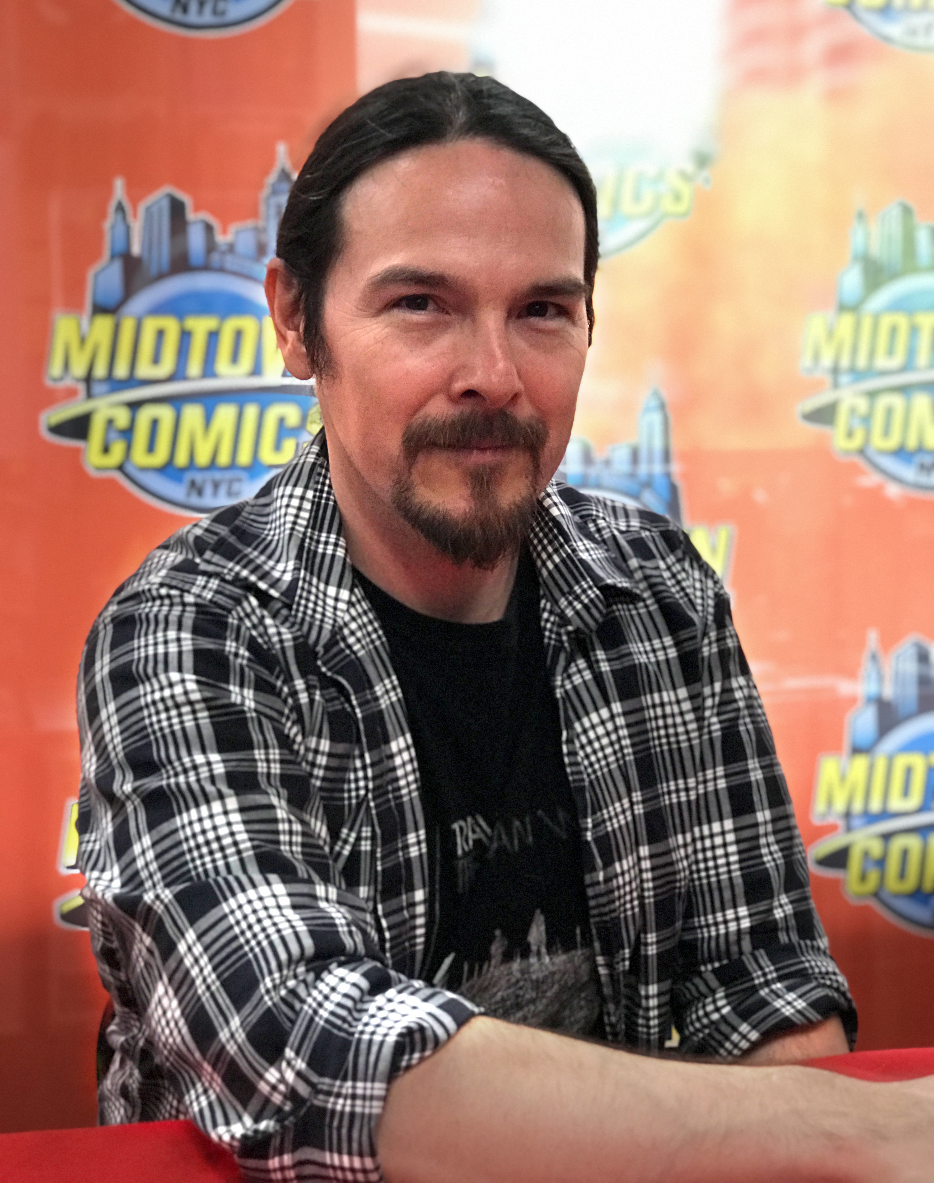 Comics artist Clayton Crain at a May 5, 2018 signing forAvengers (Vol 8) #1, whose cover Crain illustrated, at Midtown Comics Downtown in Manhattan. This photo was created by Luigi Novi. It is not in the public domain, and use of this file outside of the licensing terms is a copyright violation.